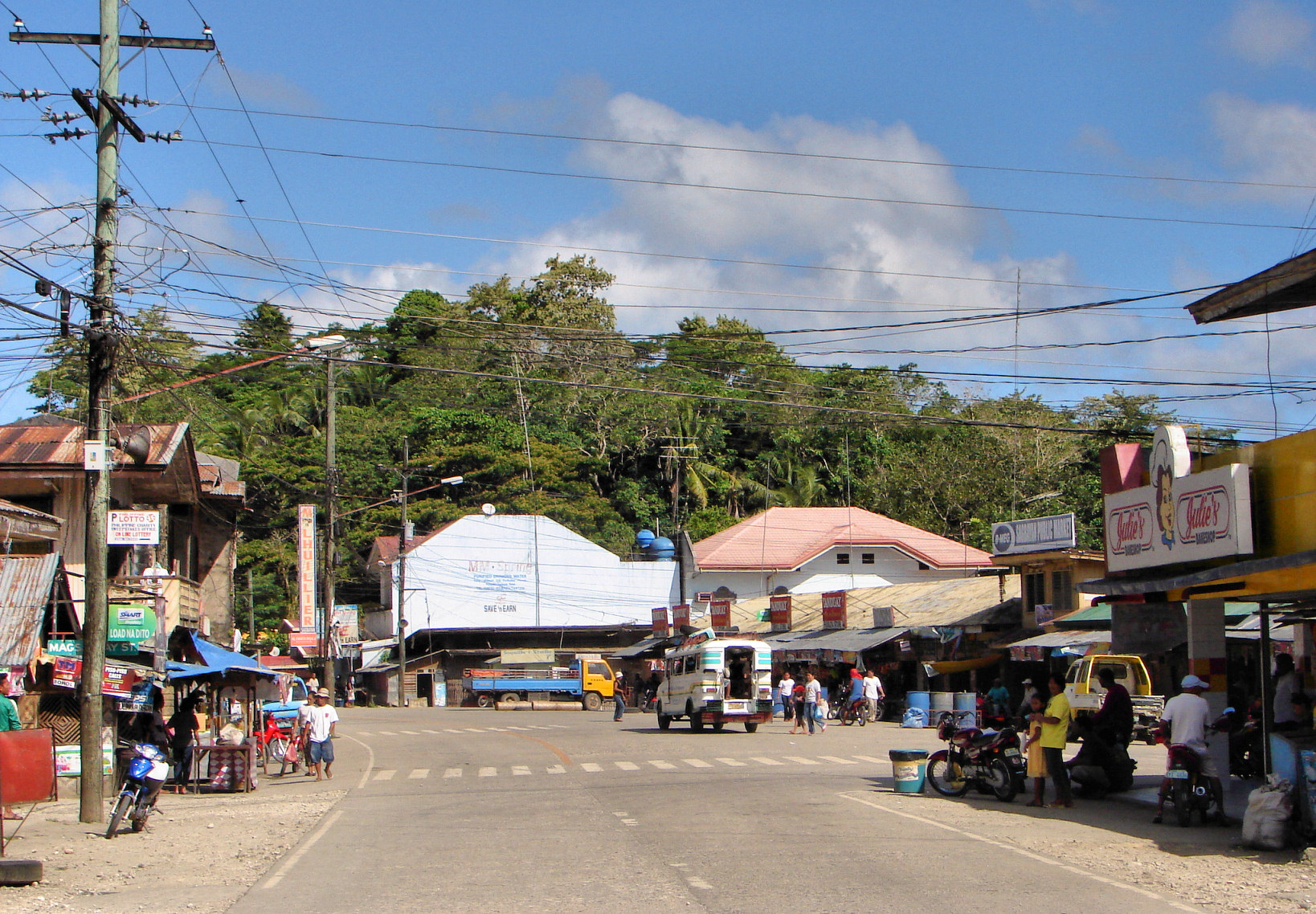 Poblacion of Sagbayan, Bohol, Philippines